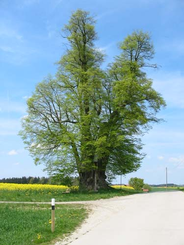 Over 500-year-old lime-tree near Patzing, Germany.